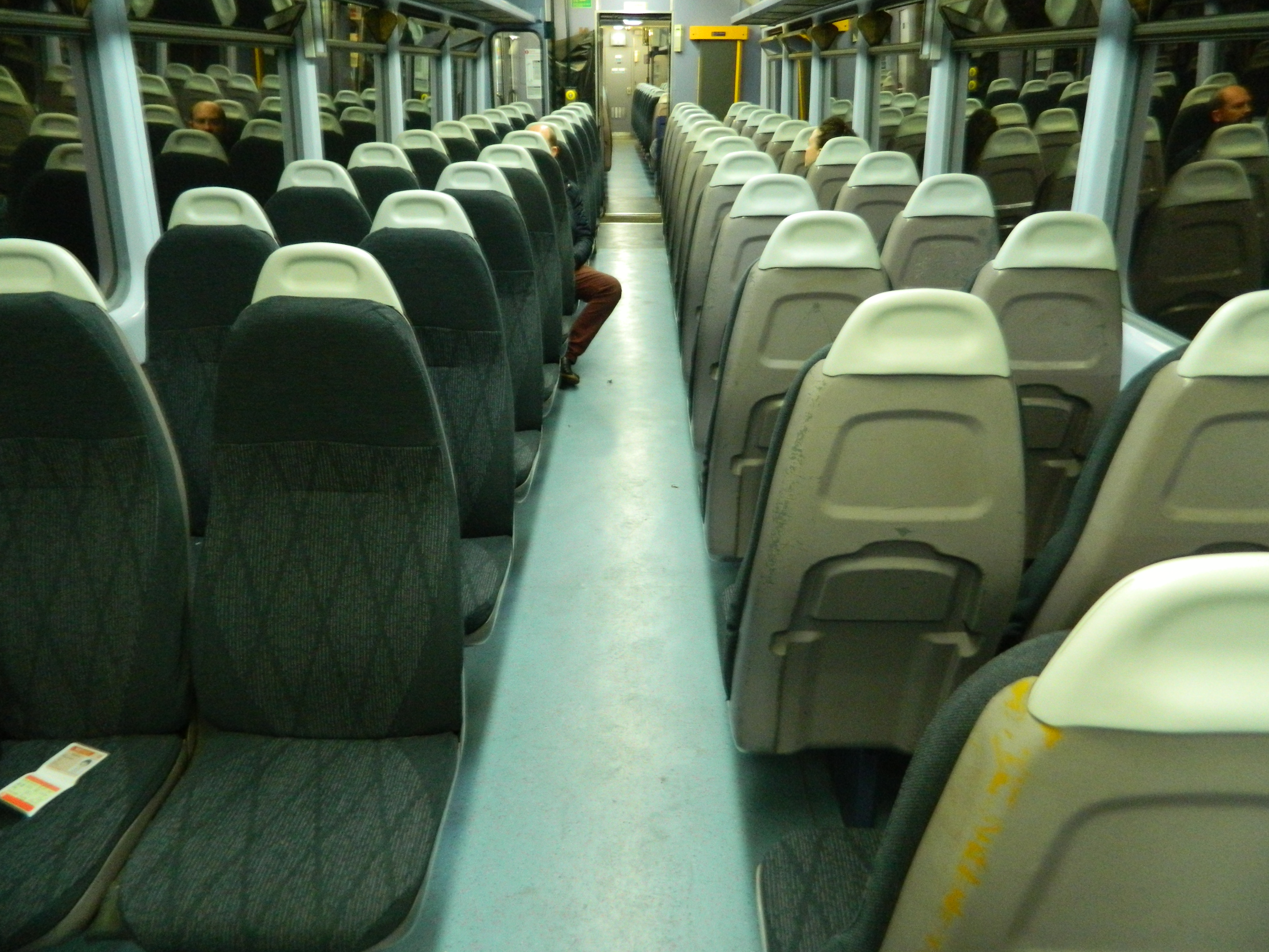 The refreshed interior of a GWR Class 143 Pacer train.